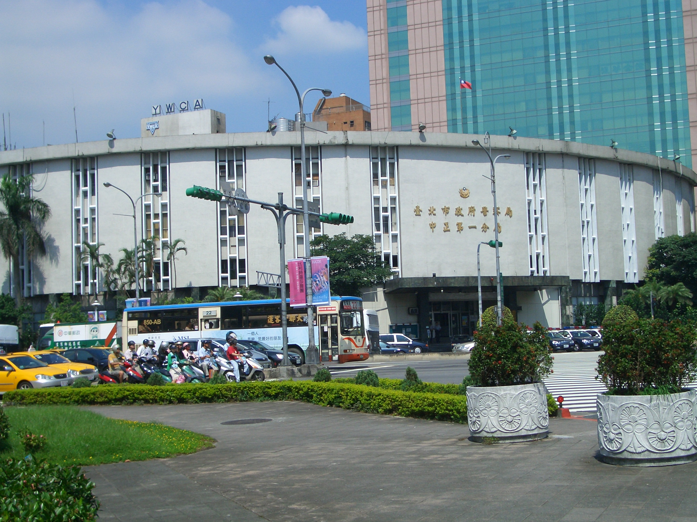 Zhongzheng First Precinct, Taipei City Police Department in the former Taipei City Council building.中文（台灣）: 臺北市政府警察局中正第一分局使用舊臺北市議會大樓。